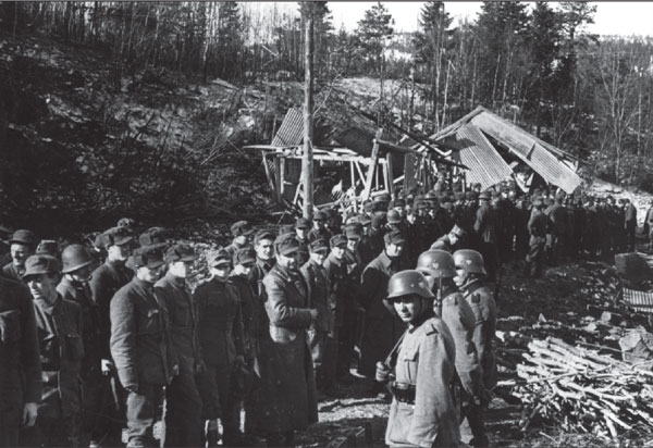 The garrison of Hegra Fortress assembled in front of the fortress following their 5 May 1940 surrender after the Battle of Hegra Fortress